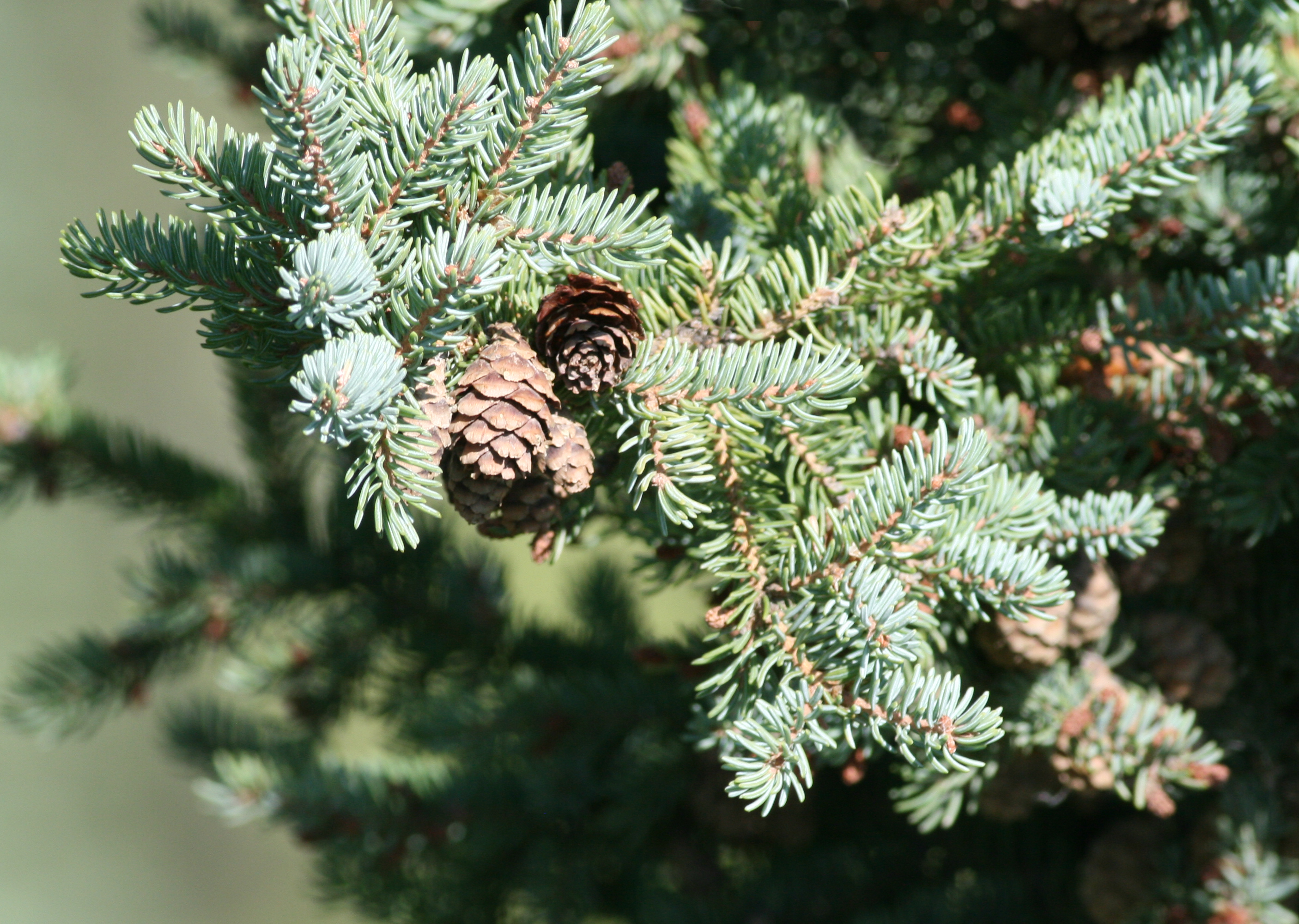 Picea mariana foliage and cones. Gravel Lake, east of Dawson City, Klondike Loop Highway, Yukon, Canada, 630m altitude.